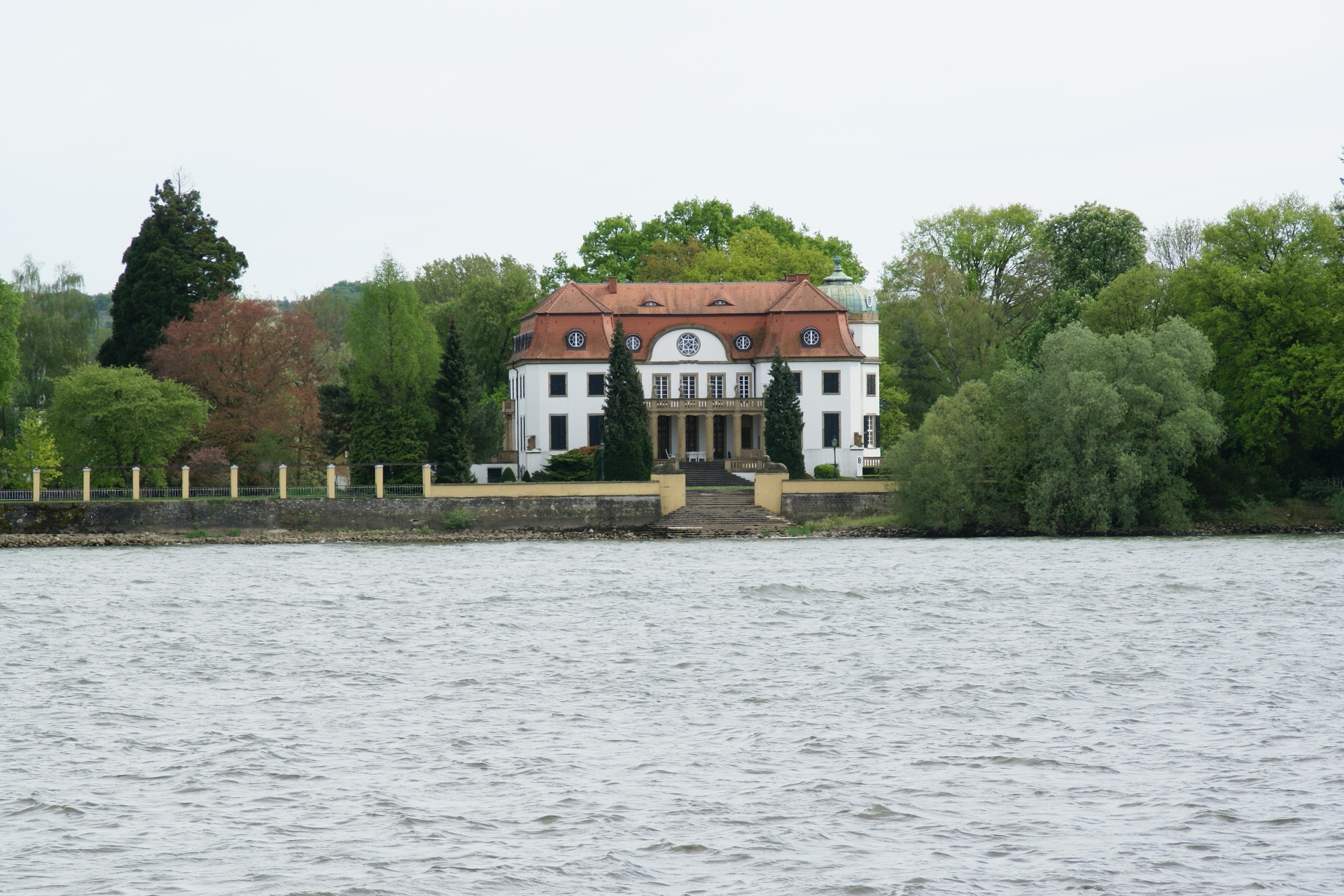 Castle on Königsklinger Aue as seen from Eltville, Germany